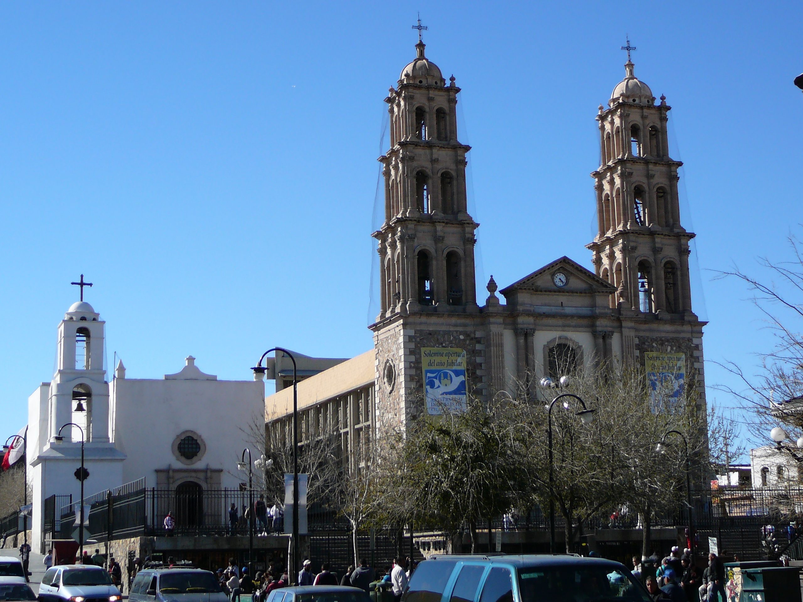 Cathedral and mission Nuestra Señora de Guadalupe in the city downtown of Ciudad Juárez, Chihuahua, México